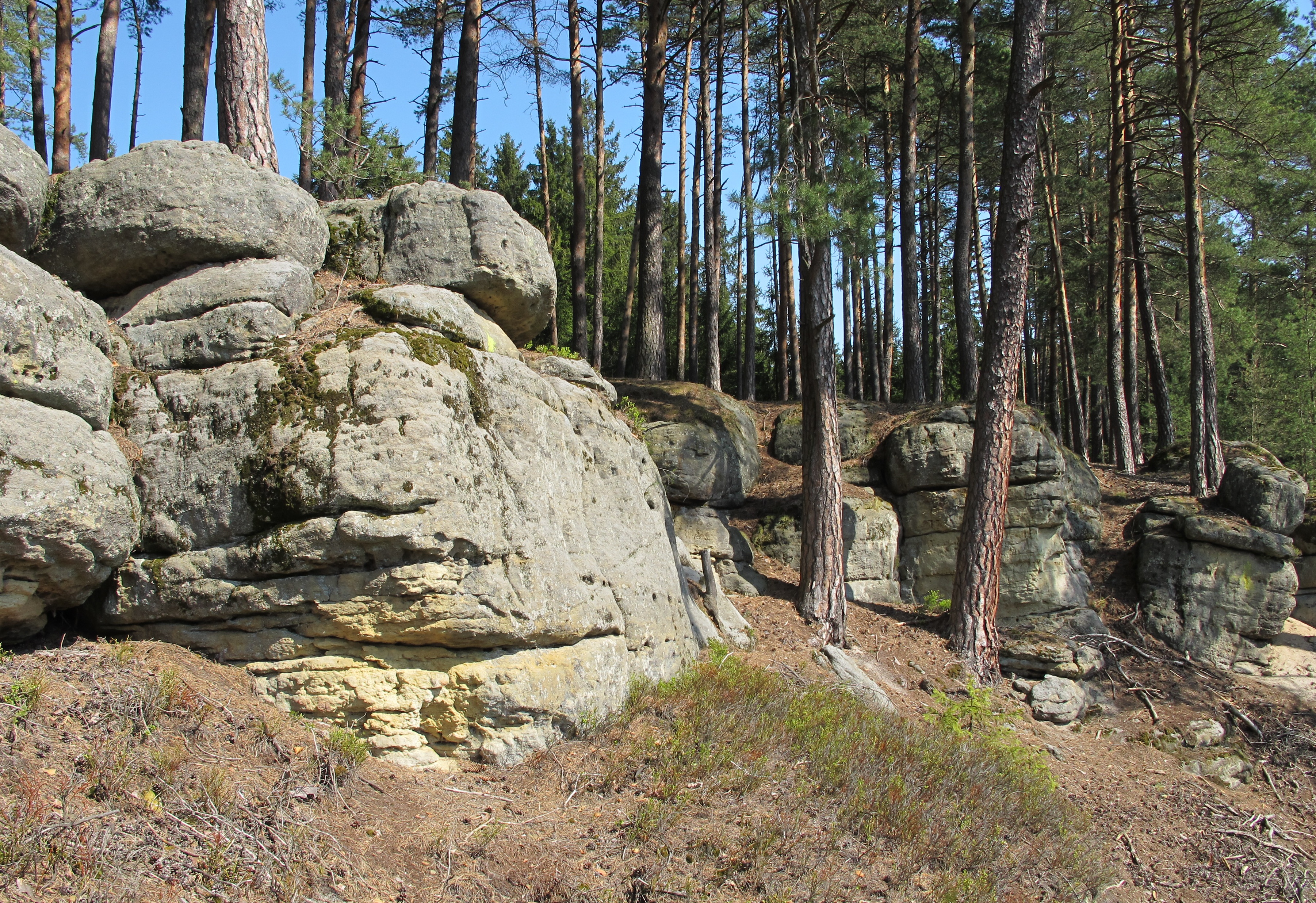 Natural Reserve Maštale between Proseč, Jarošov and Budislav (Ústí nad Orlicí District, Czech Republic); There are rocks made by sandstone of Cenomanian age.